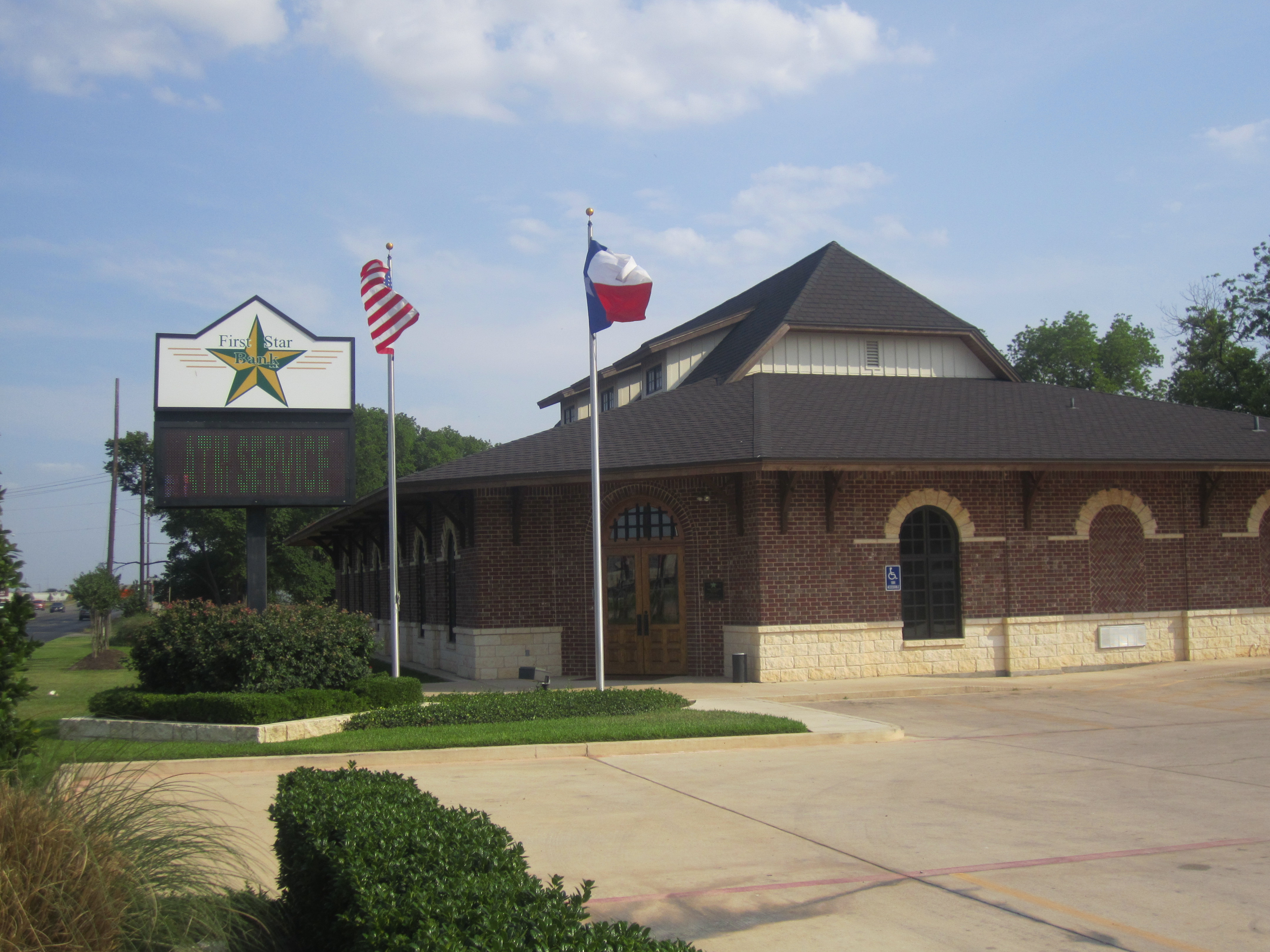 I took photo of First Star Bank in Hearne, TX, with Canon camera.